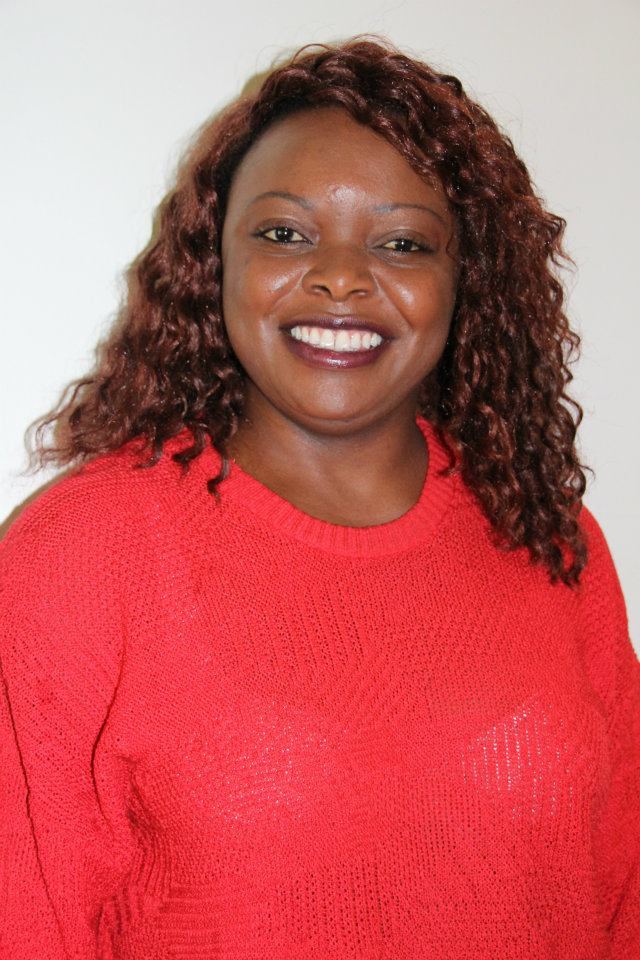 Photographer:Bk Emesum. Oslo Conference on the Family